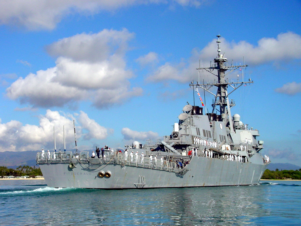 030312-N-0000L-001 Pearl Harbor, Hawaii (Mar. 12, 2003) -- Sailors ‘man the rails’ aboard the guided missile destroyer USS Fitzgerald (DDG 62) as it pulls into Pearl Harbor for a four-day port visit with the Nimitz Battle Group.